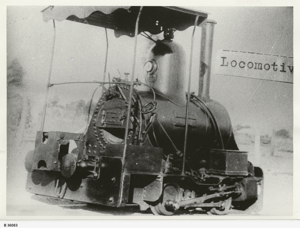 A locomotive used at the Moonta mines on the 2' 9" gauge line between Taylor's shaft and Richman's Plant. Built in Manchester by Beyer, Peacock & Co., No. 3057 of 1889, the engine was later converted to 3' 6 ' gauge, as shown here, for use throughout the mines' railway system. It was later sold ca.1911 to Henry & Sons, sawmillers of Forrest, Victoria, per Cameron & Sutherland, Melbourne dealers.